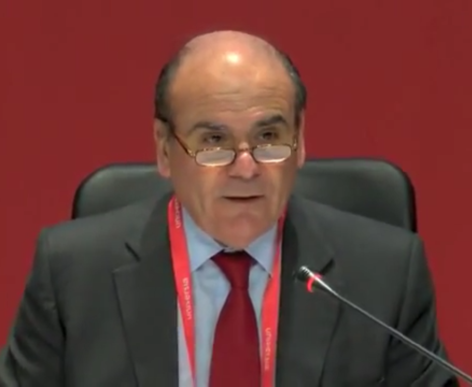 António Manuel Bensabat Rendas (1949-), Rector of the Nova University of Lisbon (Universia Río 2014).